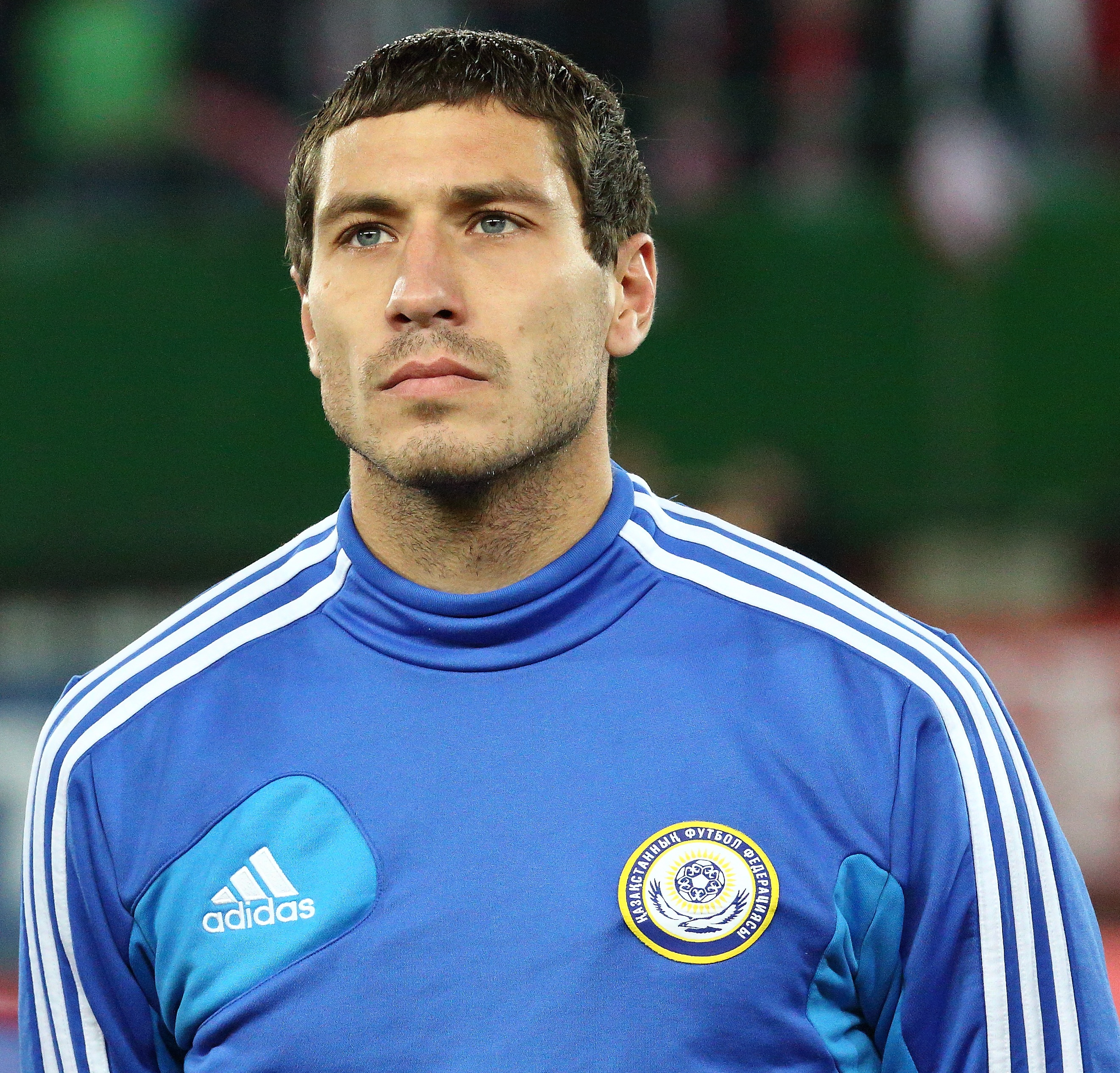 Anatoli Bogdanov before the match against Austria on October 16th 2012.